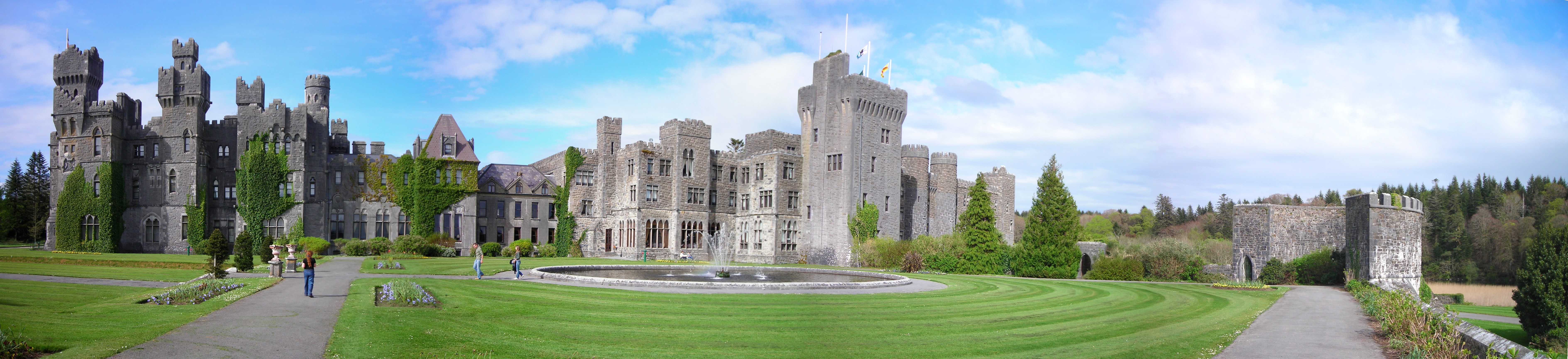 Ashford Castle, founded in 1228 near Cong (County Mayo, Ireland), is one of the most beautiful and luxury hotel of the world.